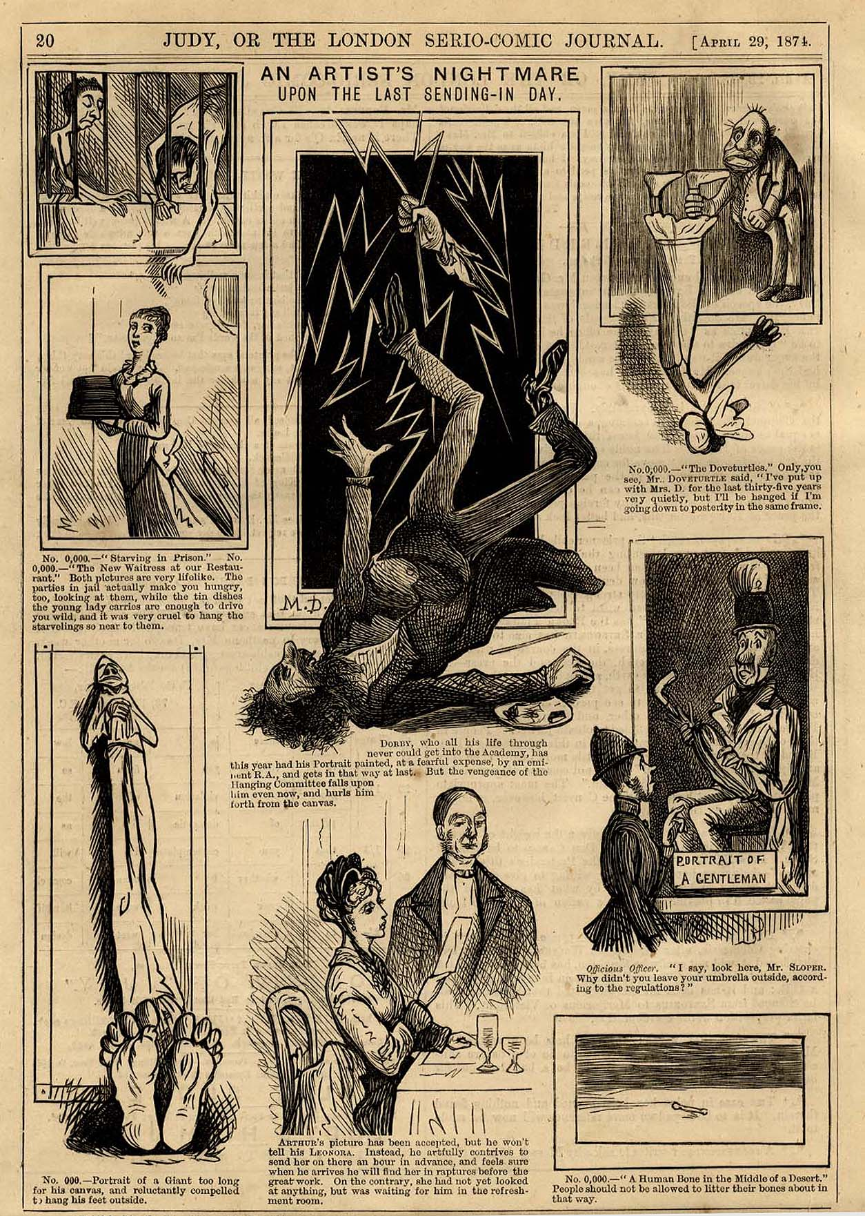 A page drawn by Marie Duval for Judy. More details in the title of the file.